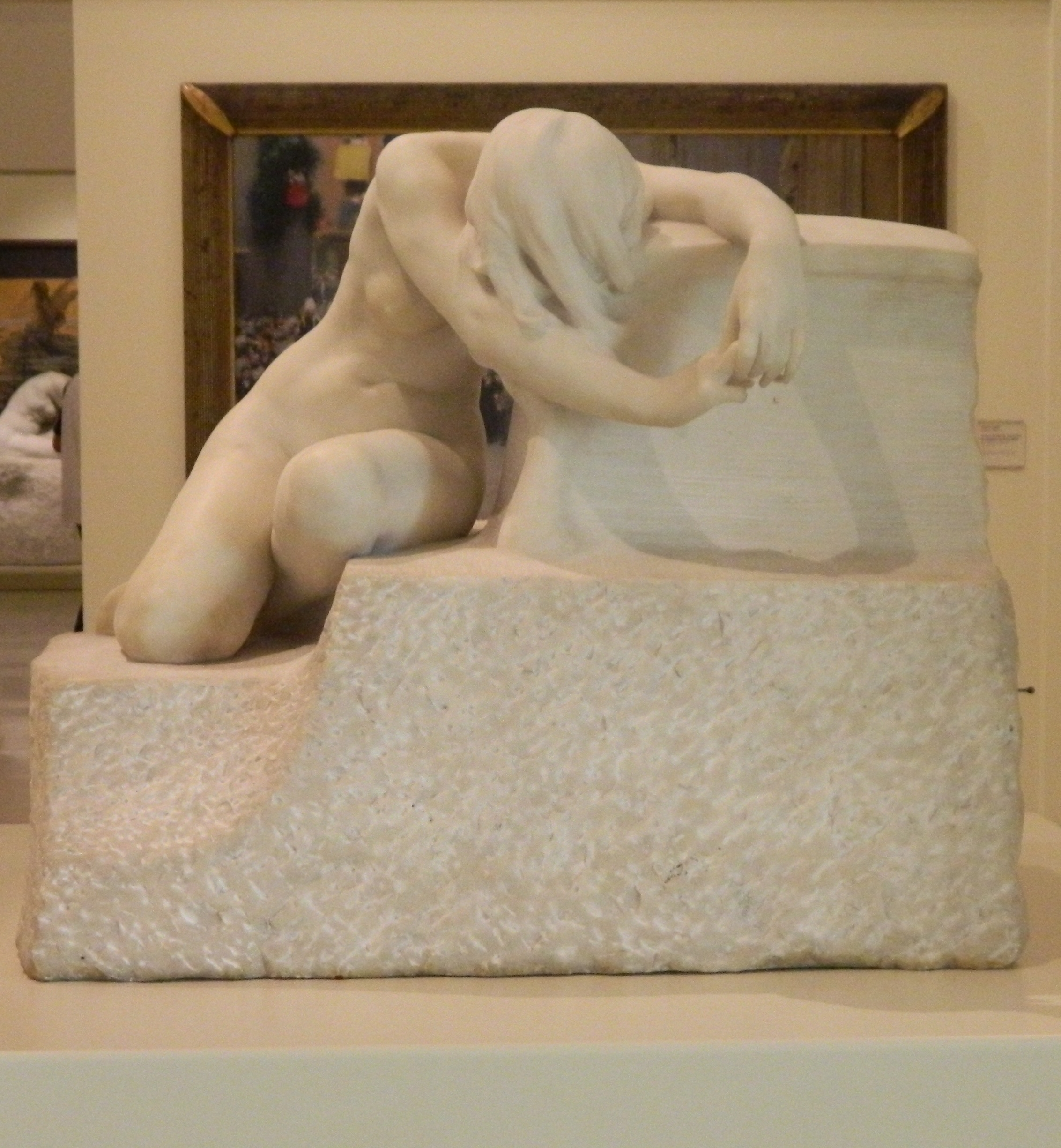 Josep Llimona, Desconson (Desolation) Museu Nacional d'art de Catalonia